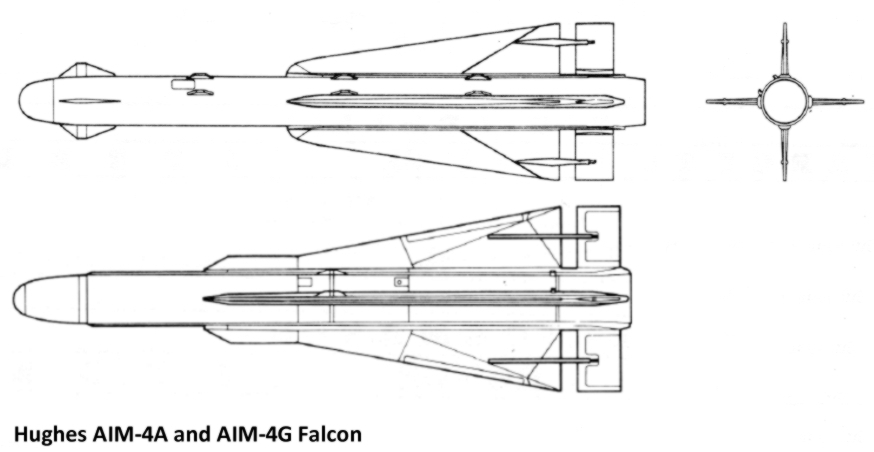 Line drawings of the Hughes AIM-4A and AIM-4G air-to-air missiles.